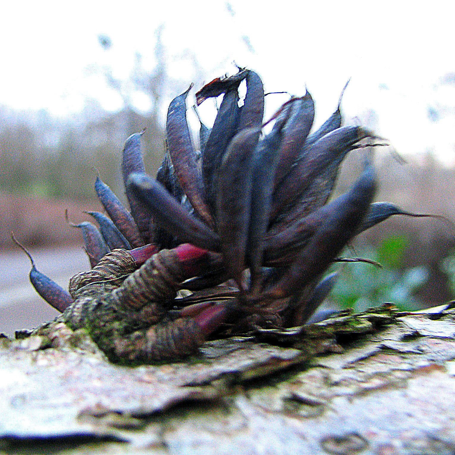 Buds and fruits of katsura tree, Alnarp